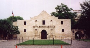 Personal pic of Alamo taken Fall 1998